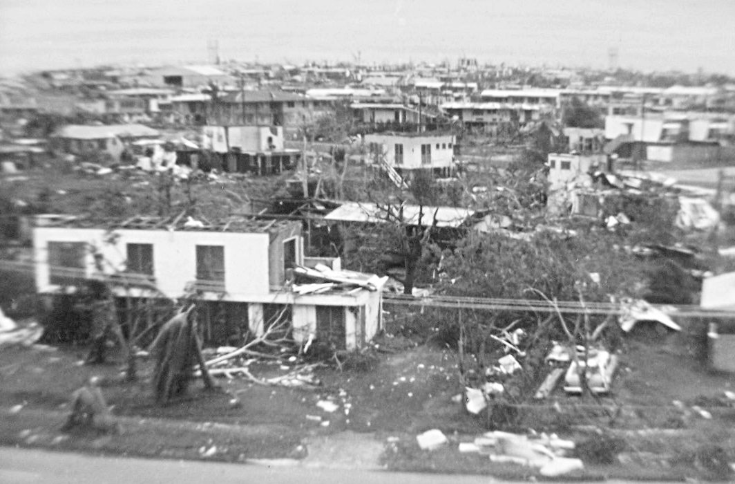 Damaged houses after the passage of Cyclone Tracy on Christmas day 1974 in Darwin, Australia.